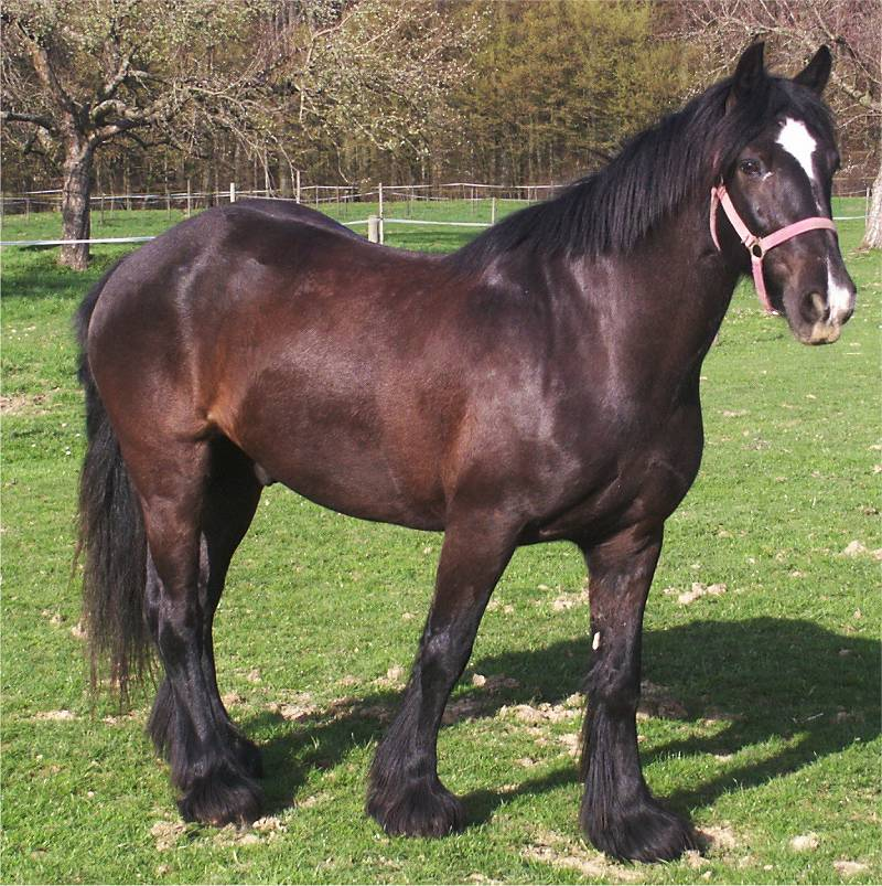 Shakespeare, a 12-year-old Dales-Pony, 15.2hh (large for the race)